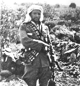 Palestinian rebel leader Yusuf Abu Durra posing with his rifle